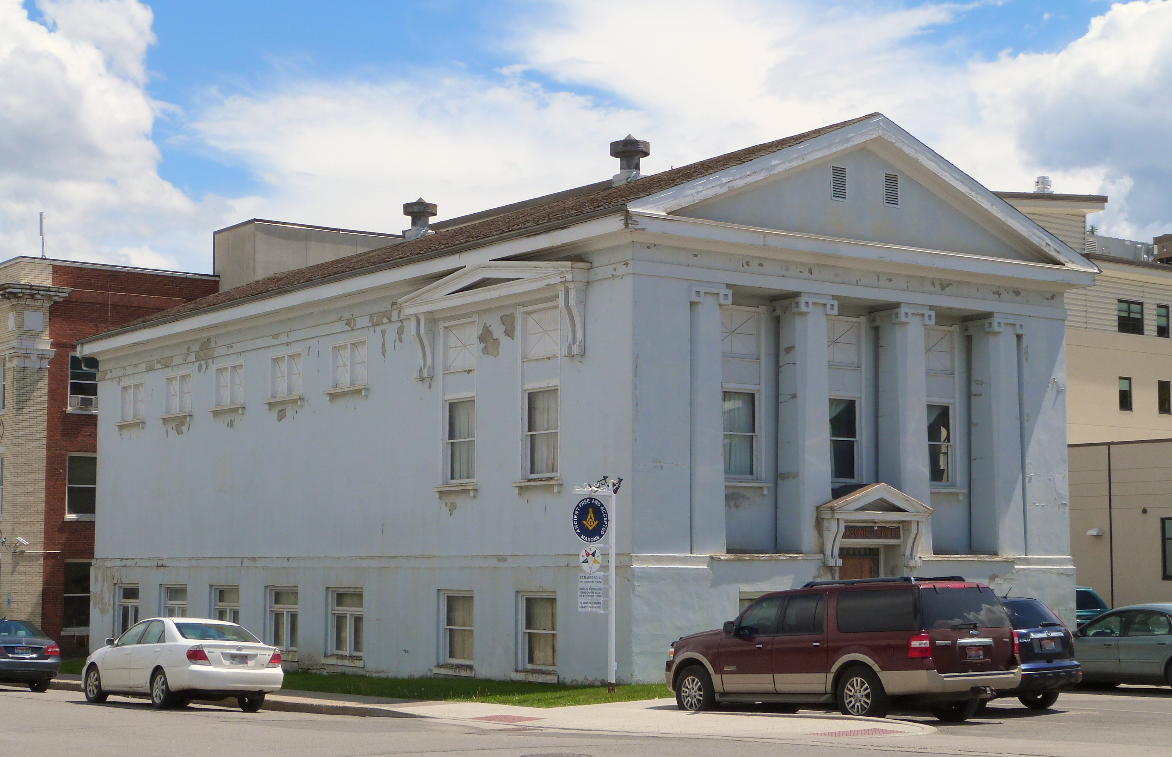 The historic St. Maries Masonic Temple No. 63 (built 1916–1917), located at 208 South 8th Street in St. Maries, Idaho, United States, is listed on the US National Register of Historic Places.